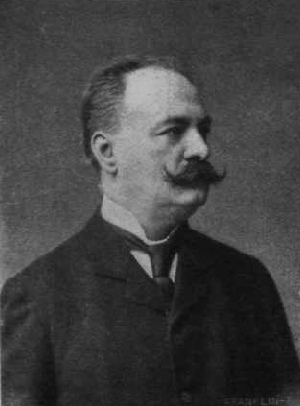 Portrait of Árpád Bókay